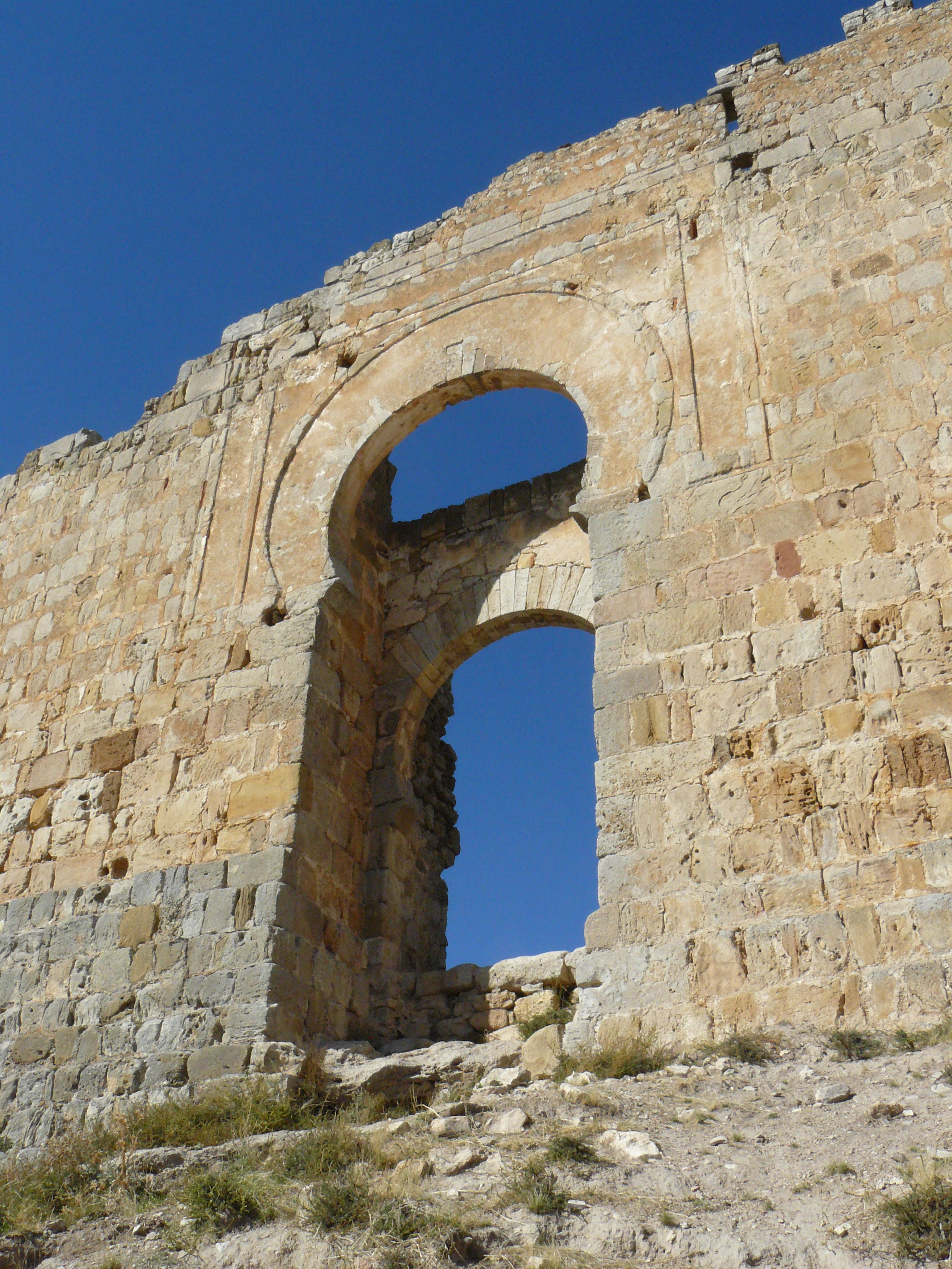 Moor Castle of Gormaz, southern gate.